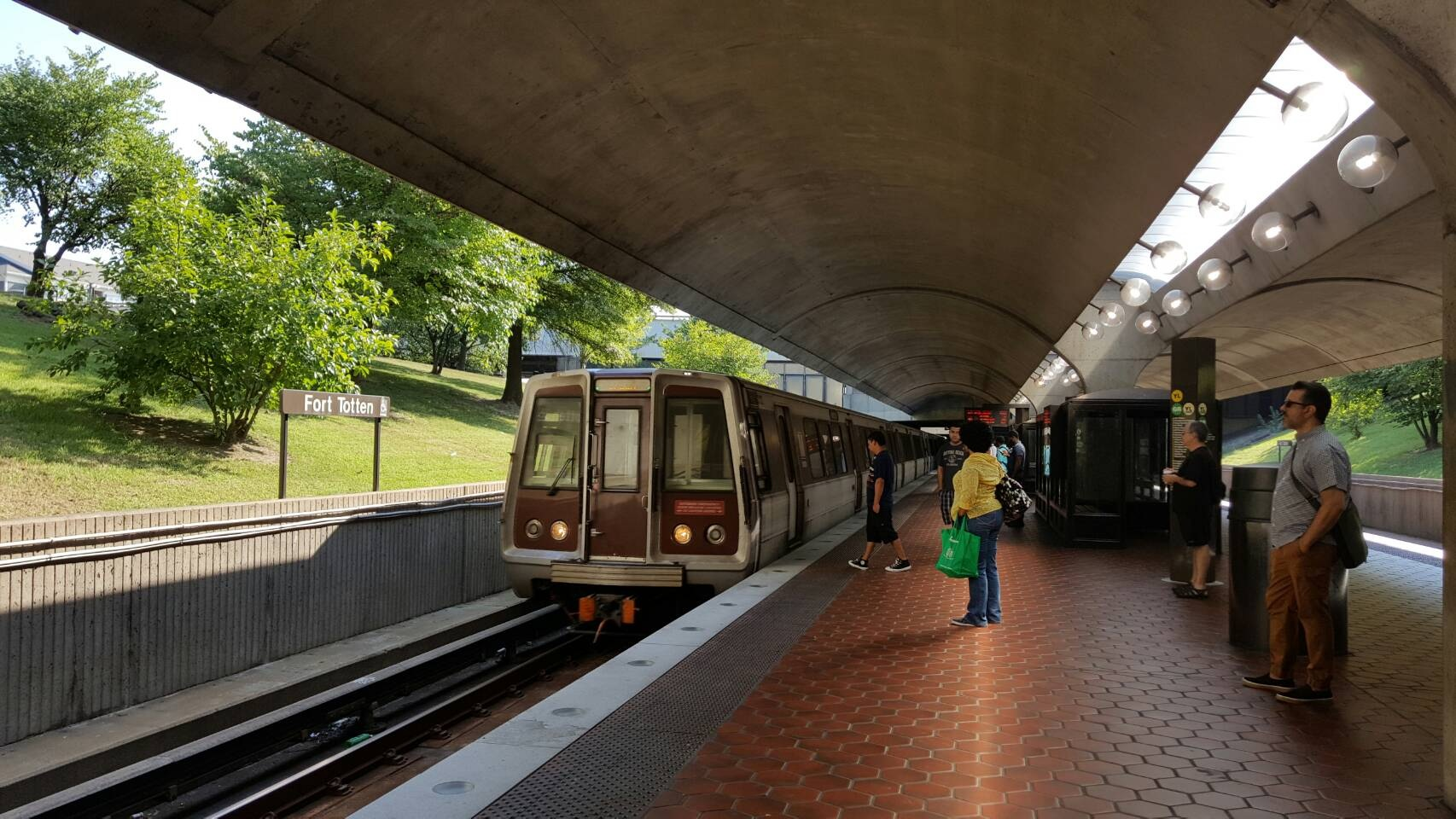 Fort Totten Station platform and train (Thanks to E's lens!)